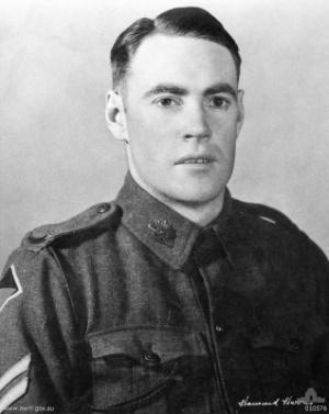 Studio portrait of Corporal John Hurst Edmondson VC, the first Australian to be awarded the Victoria Cross in World War II. He was posthumously awarded the VC for his actions on 13 April, 1941 in Tobruk, Libya.